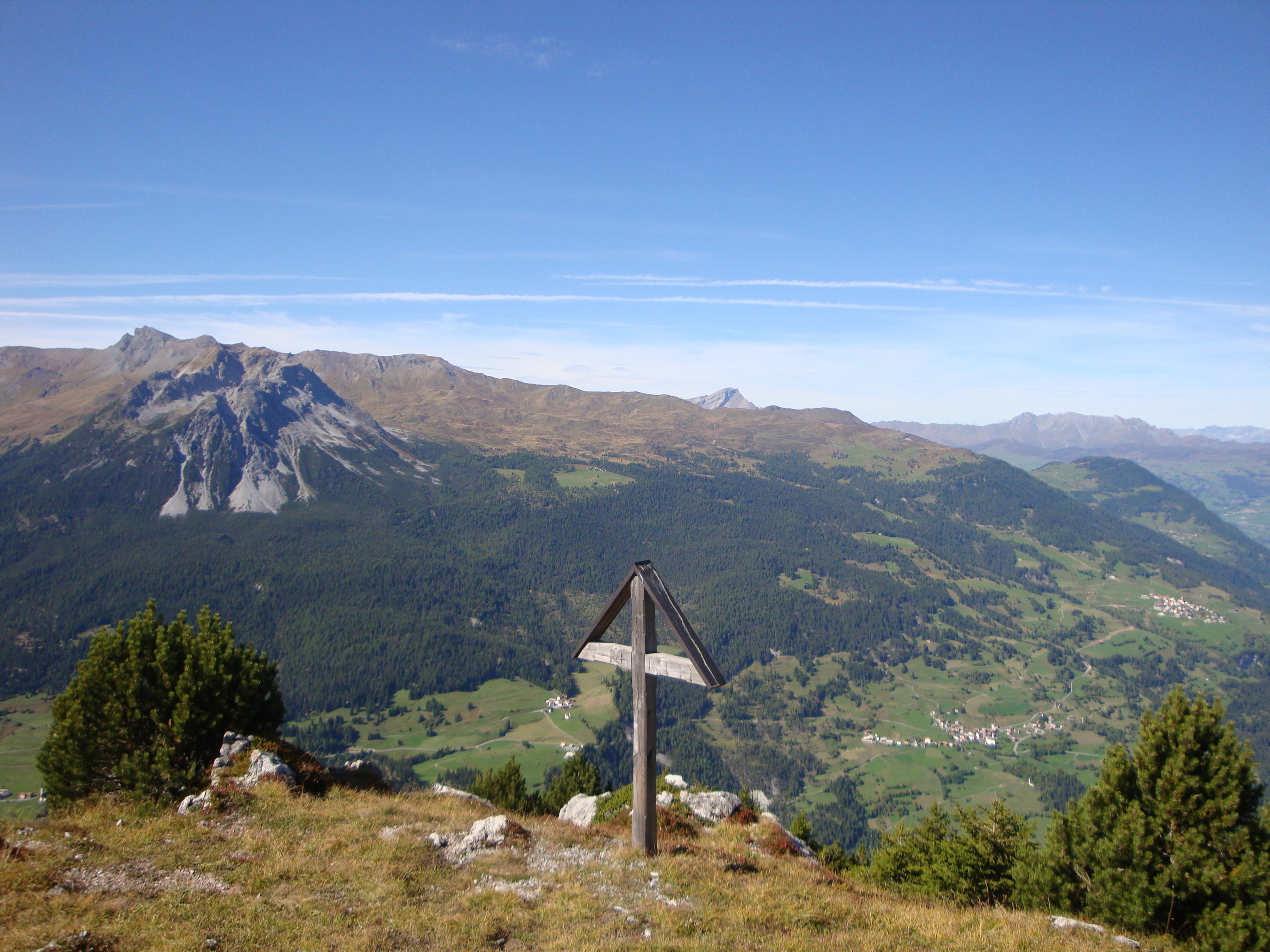 Cross on Motta Palousa, Tiefencastel, Cunter, Grison, Switzerland